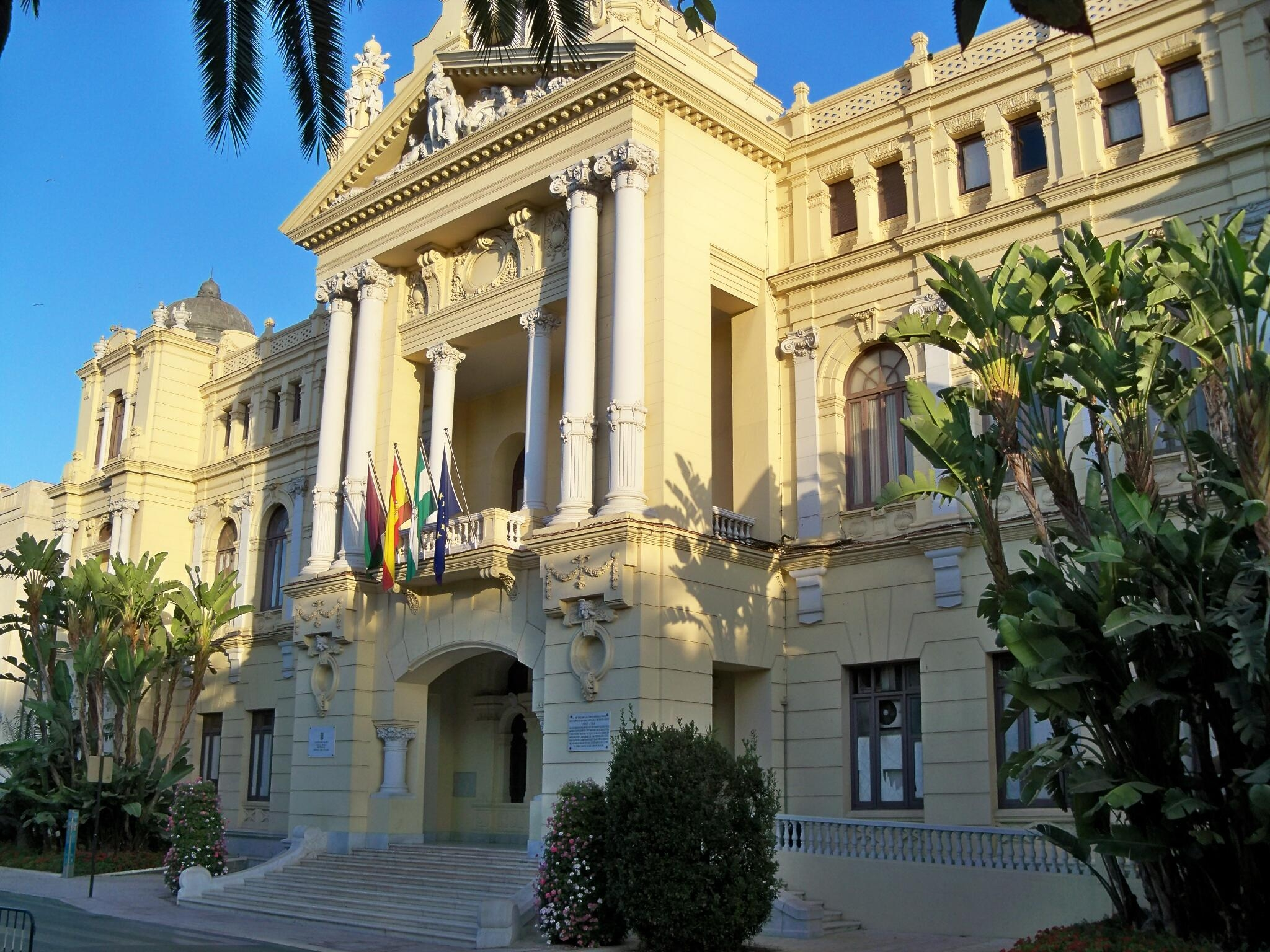 Málaga City Hall, Málaga, Spain.